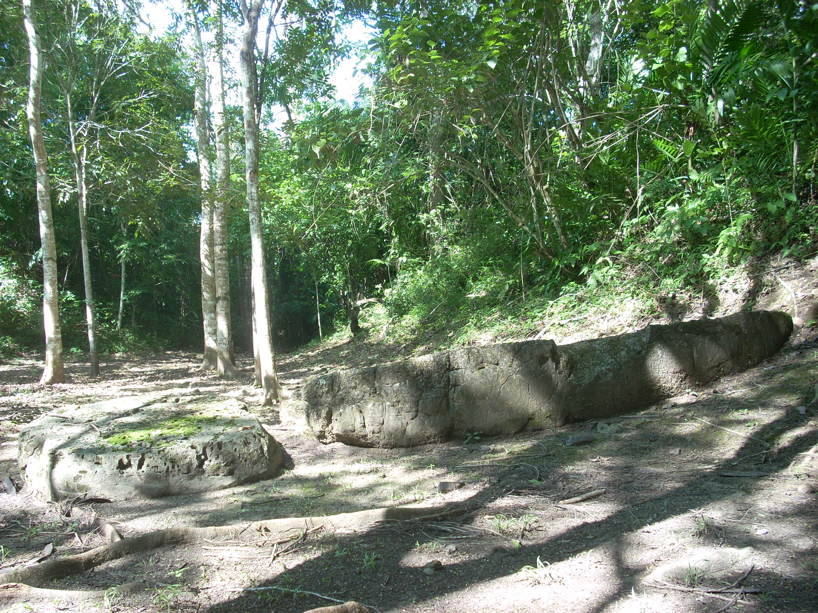 Fallen Maya stela with associated altar in the West Plaza of El Chal, Peten, Guatemala.